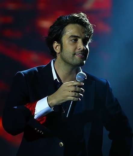 Iranian singer, Banyamin Bahadori in his concert in Milad Tower